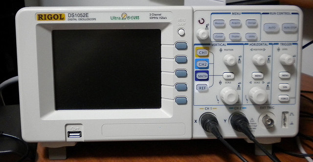 My first DSO